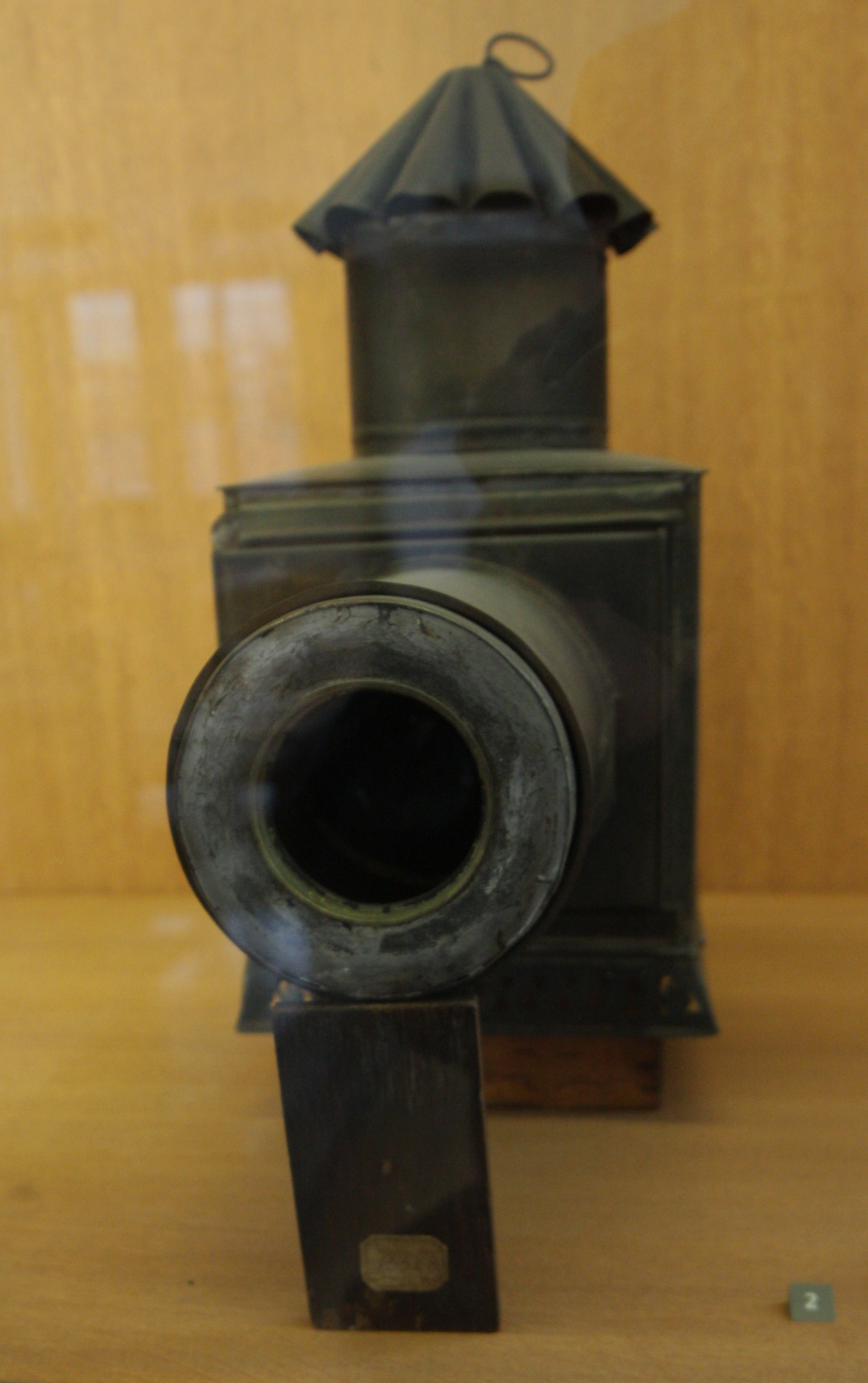 Magic Lantern, 1818, Musée des Arts et Métiers